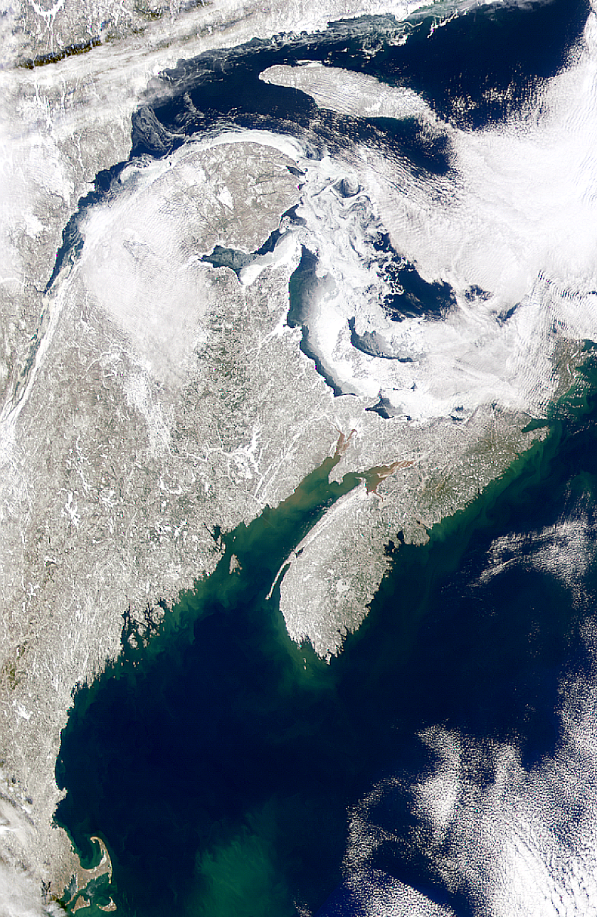 This SeaWiFS image shows the productive waters over George's Bank and Nantucket Shoals, the sediment muddied waters in the upper Bay of Fundy, sea ice in the Gulf of St. Lawrence, and the ice covered Lake Manicouagan formed around a former impact crater.